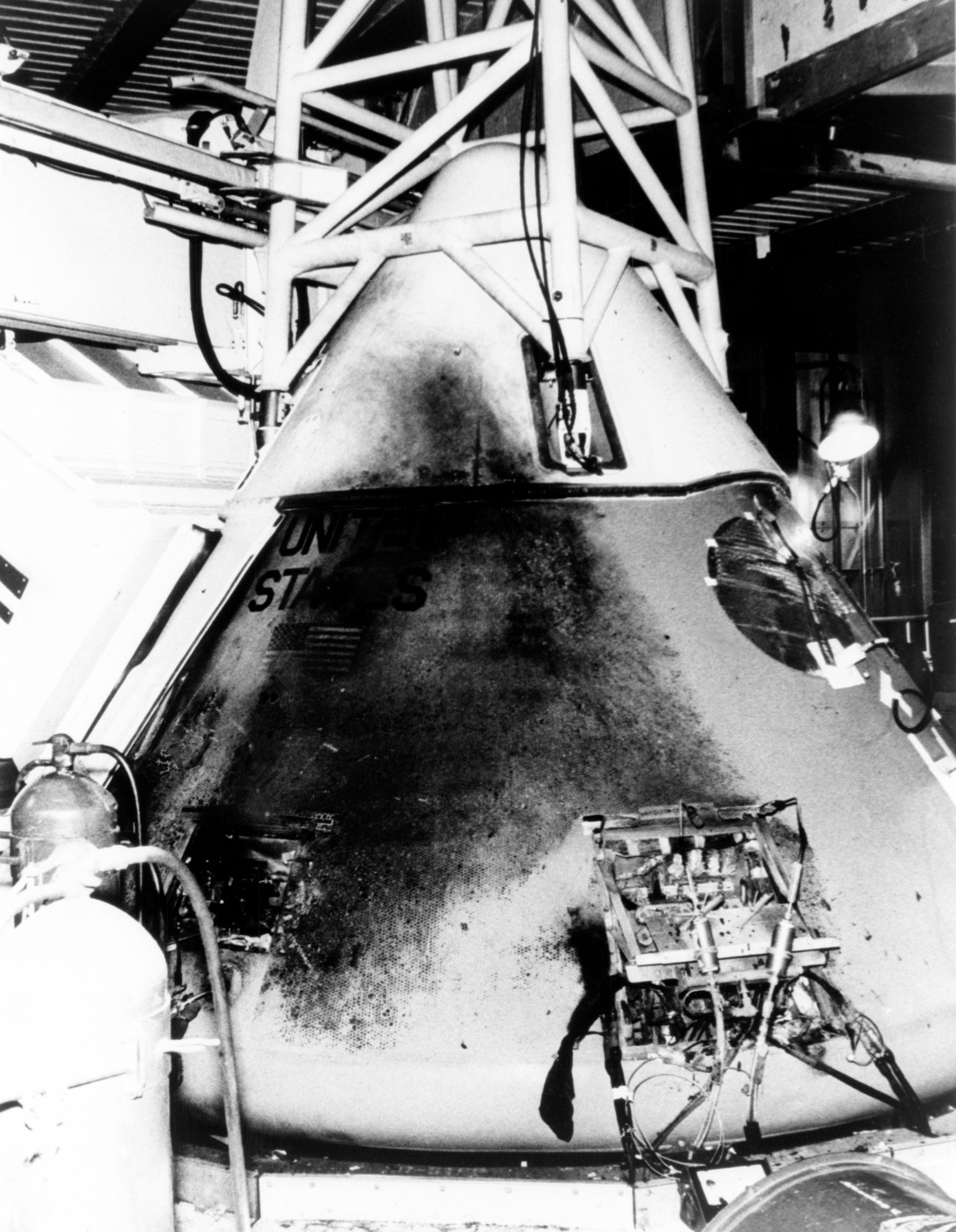 This photograph shows Apollo 1's Command Module a day after the fire that took the lives of astronauts Lt. Col. Virgil "Gus" Ivan Grissom, Lt. Col. Edward Higgins White II, and Lt. Cdr. Roger Bruce Chaffee. The photograph was taken in the White Room at Launch Complex 34. The exterior effects of the intense heat of the flash fire can be seen. An investigative board was promptly set up to examine the accident and identify the cause of the fire. The final report gave the results of the investigation as well as detailed suggestions for major design and engineering modifications, revisions to test planning, manufacturing procedures, and quality control. With these adjustments, the Apollo program became safer and successfully sent astronauts to the Moon.